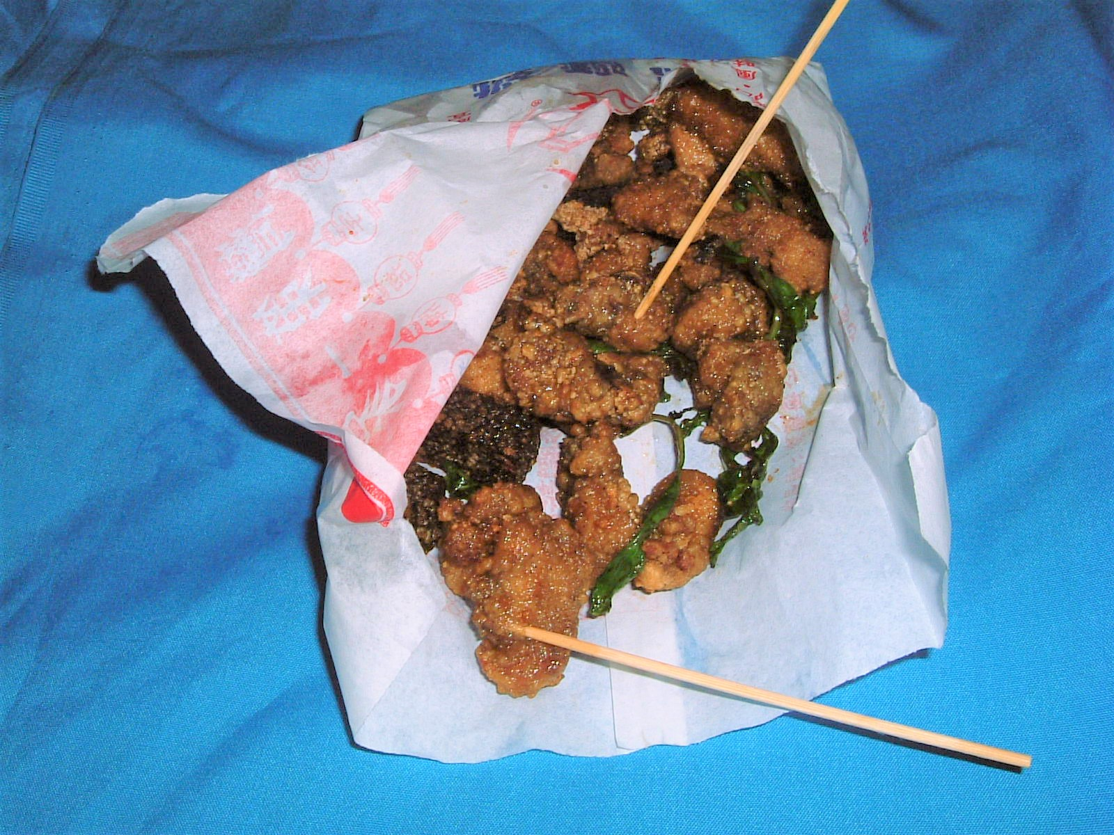 A pack of TWBC Taiwanese fried chicken.